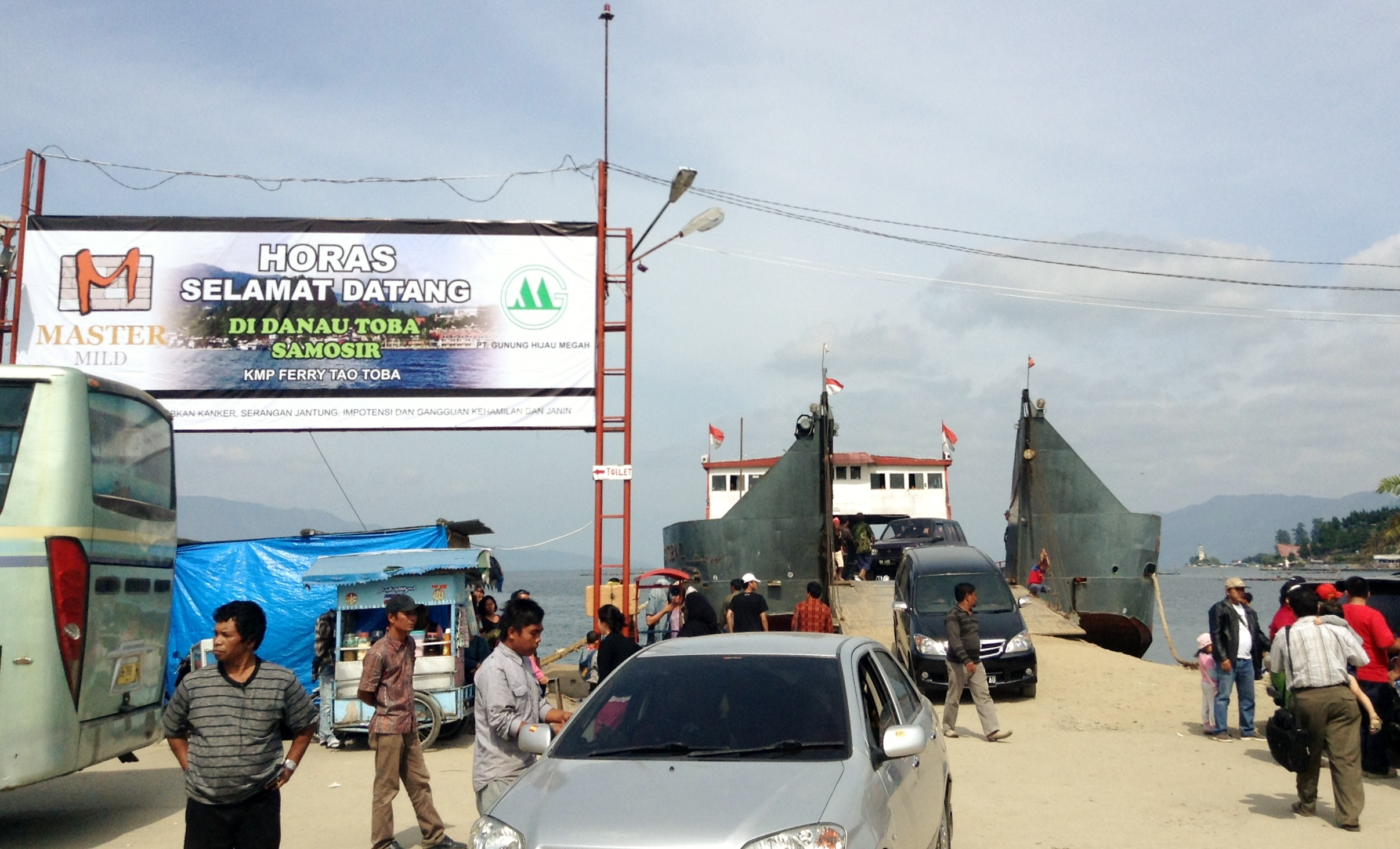 Ferry Port in Ajibata, Toba SamosirBahasa Indonesia: Pelabuhan Feri Ajibata, Toba Samosir